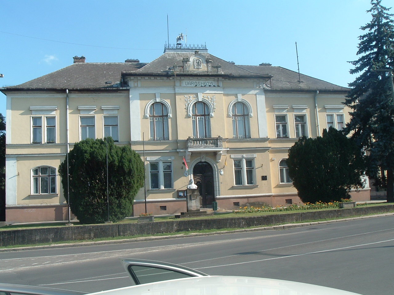 Szécsény, City Hall,A szécsényi városháza 1905-ben épült. - Cím: Szécsény, Rákóczi út 84